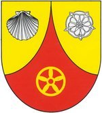 Coat of Arms of Ehringhausen